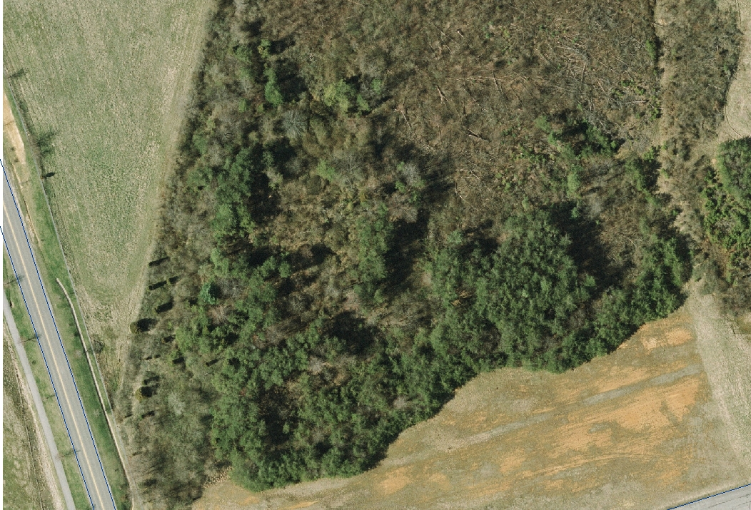 Aerial Photo of Crown Closure